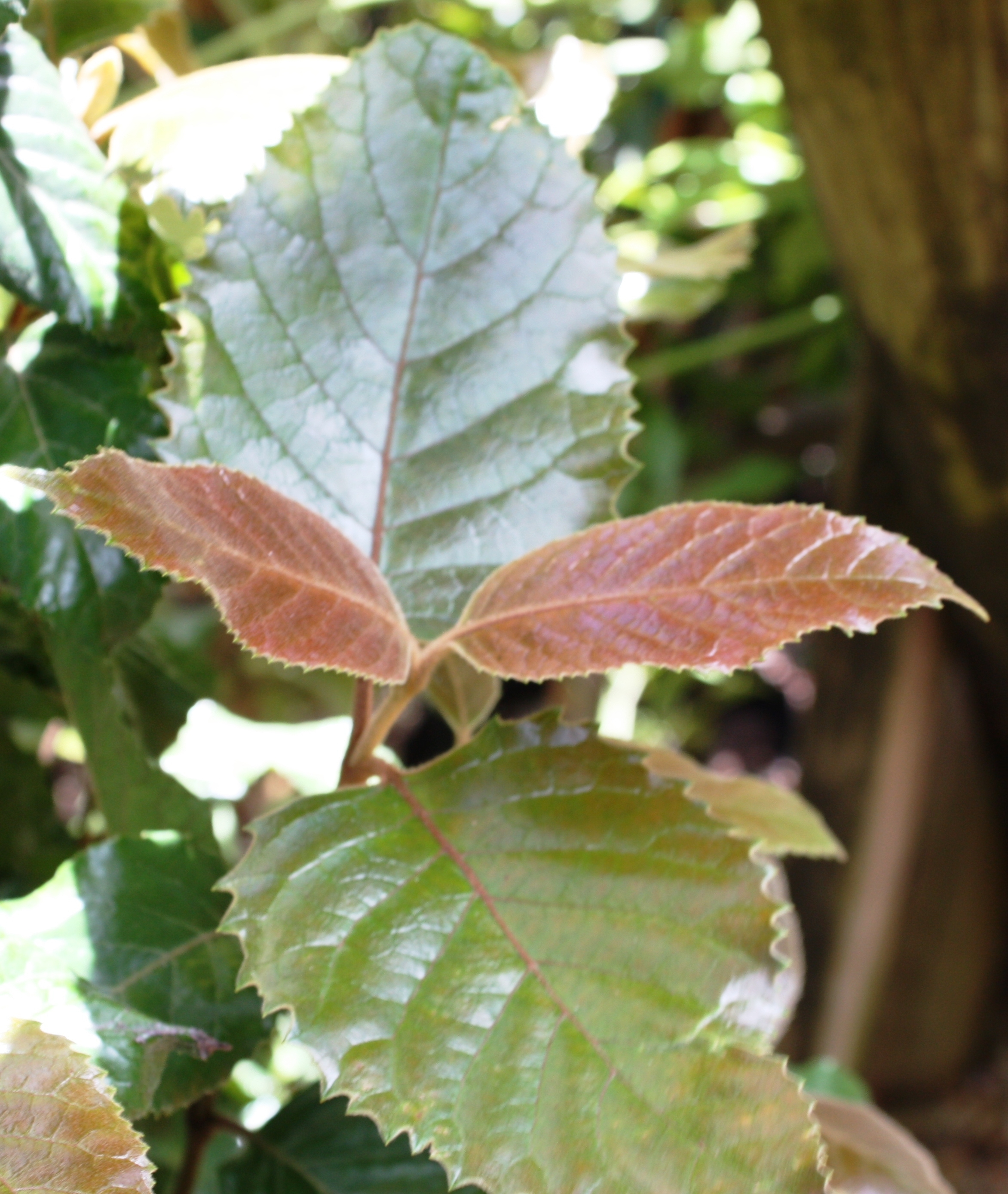 Leaves of Curtisia dentata Assegai tree. Photo taken in Cape Town forest.